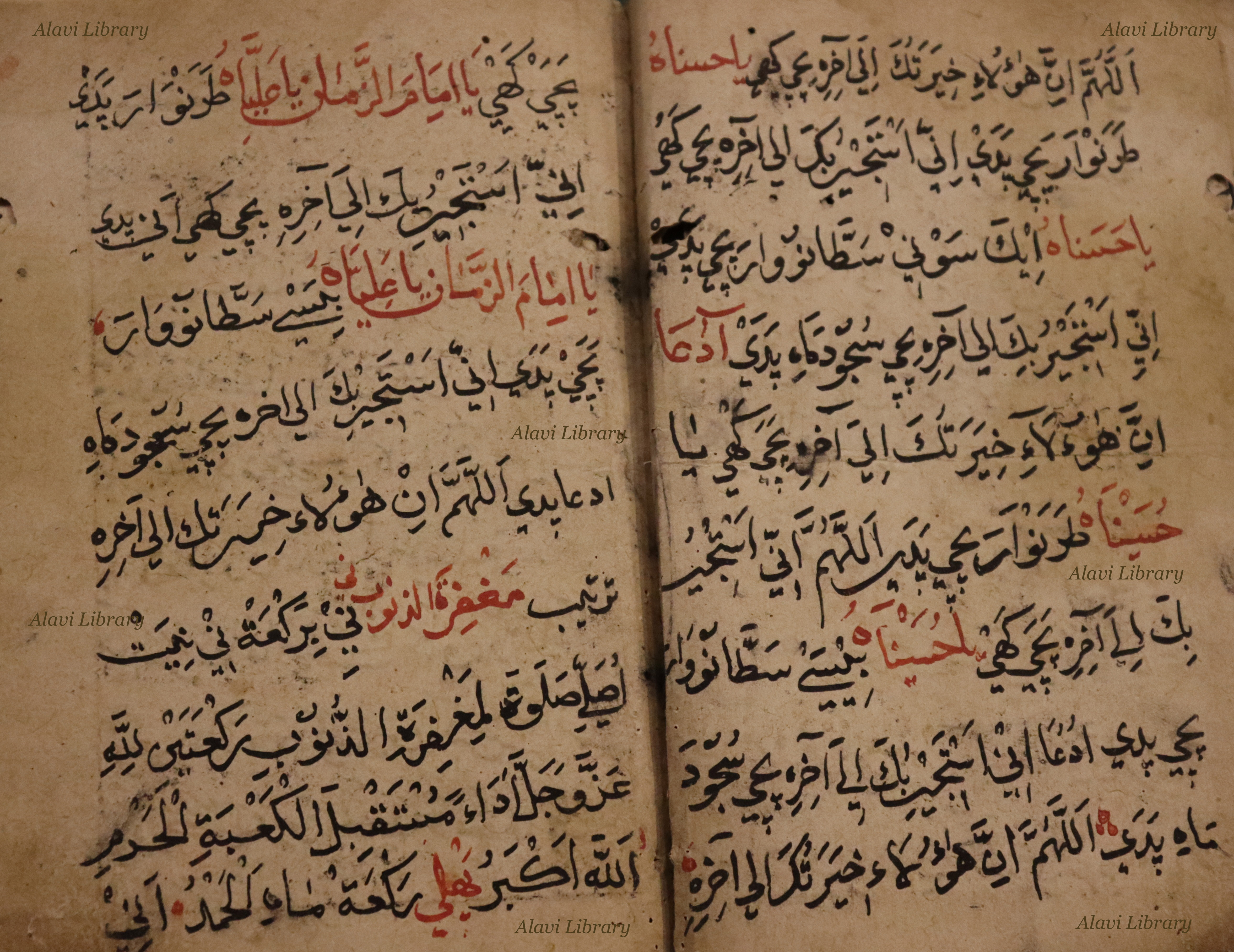 this mss contains the instructions and details of prayers written in ahmedabad in 1025 AH